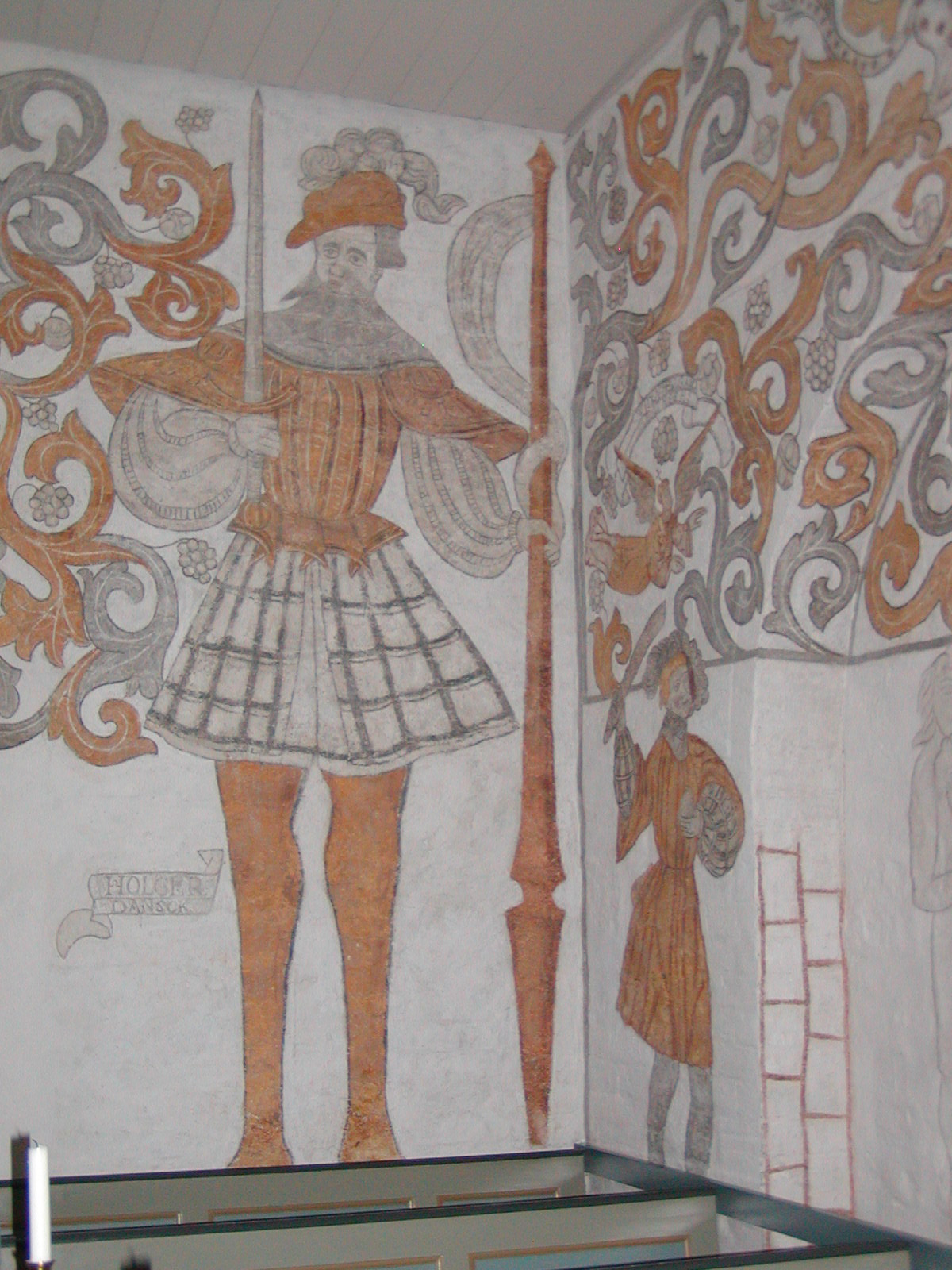 Holger Danske (Ogier the Dane) in a 16th century mural in Skævinge Church